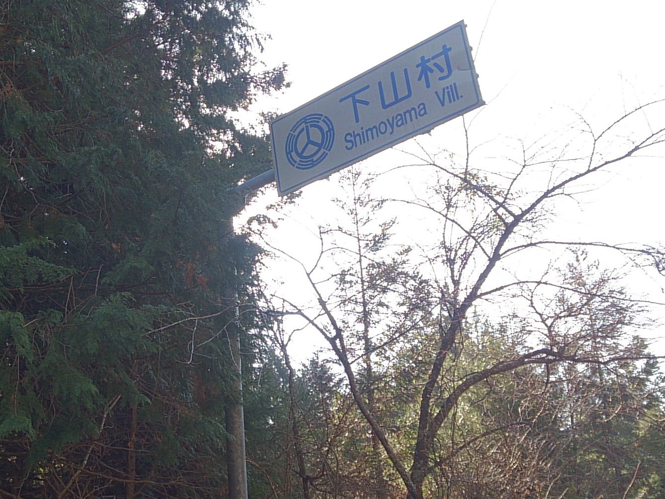 A village border sign, Toyota (Shimoyama), Aichi